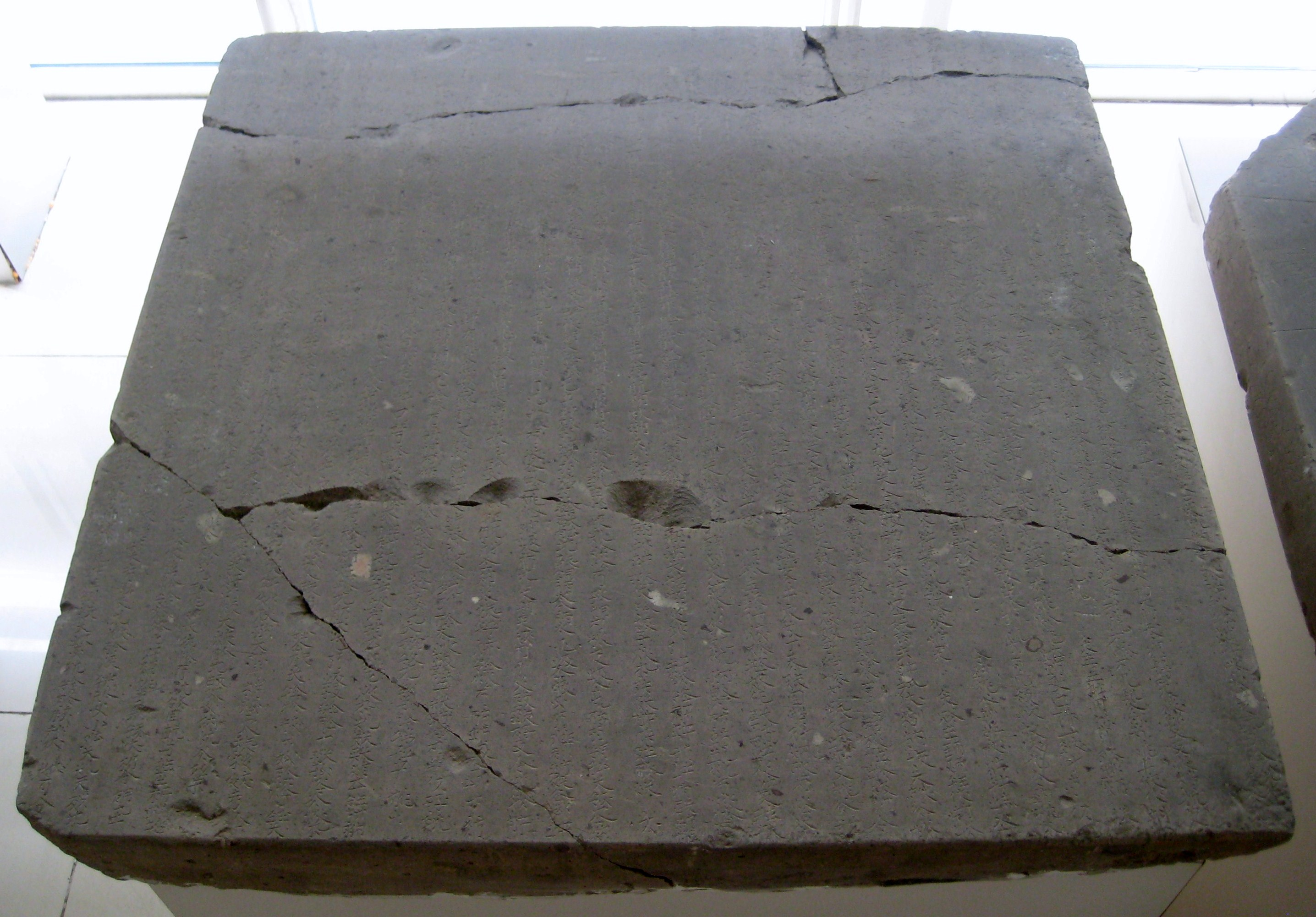 Memorial tablet of Yelü Dilie 耶律迪烈 (1026-1092), with an inscription in the Small Khitan script (32 lines, and 9 continuation lines on the underside of the cover, in total about 1,740 characters). 91 × 91 × 11 cm. Liao Dynasty (916-1125). From a tomb at Gahaitu Township, Jarud Banner, Inner Mongolia that was excavated in 1995.